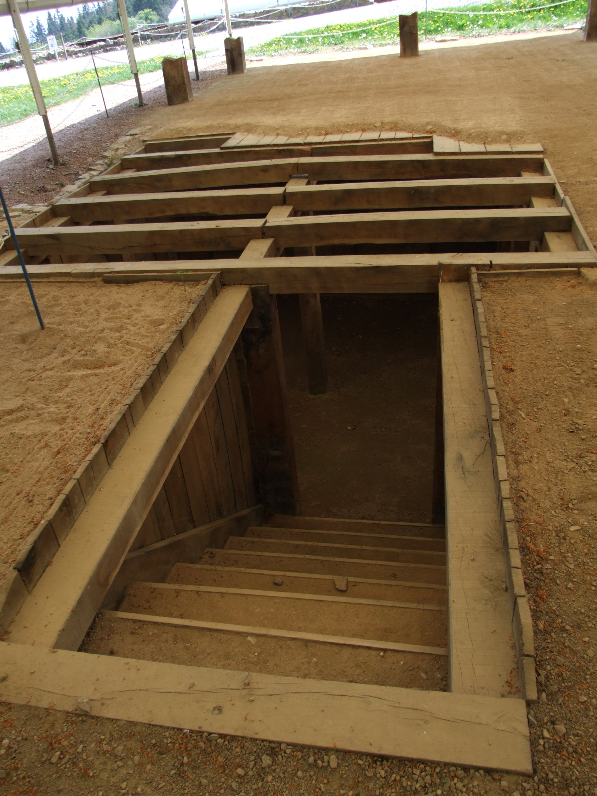 Bibracte, Burgundy, FRANCE